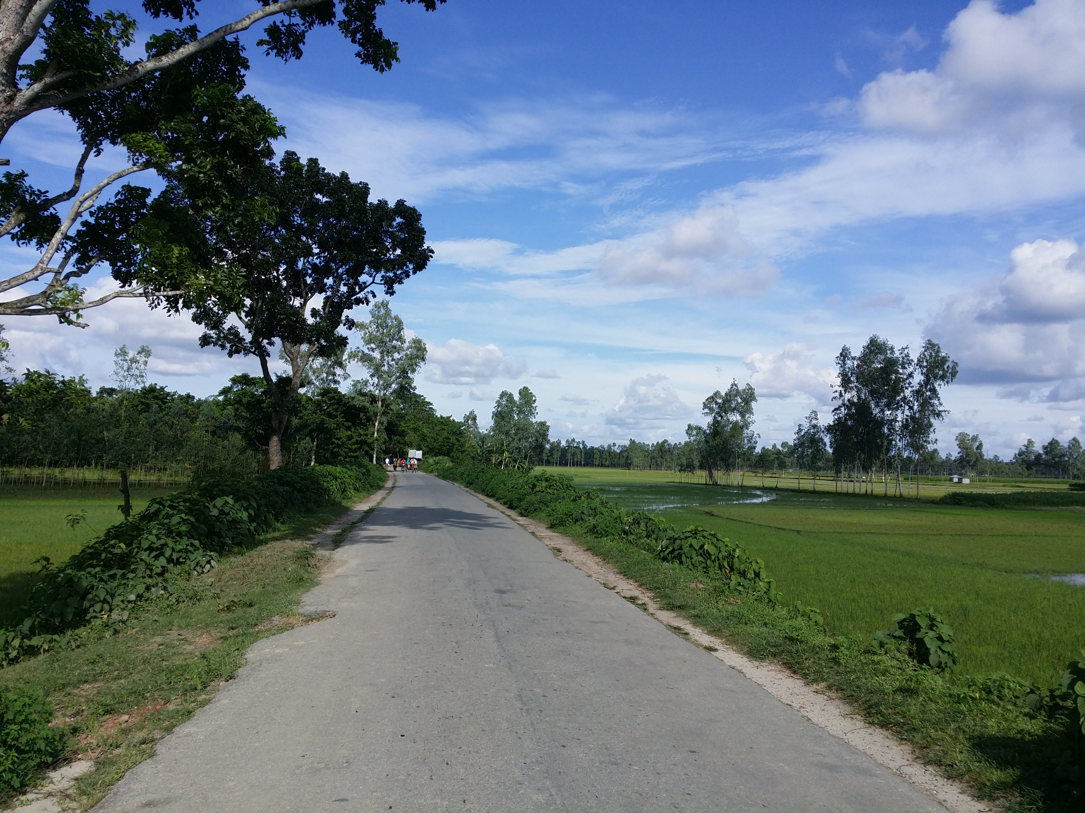 Dhunat Upazila, Bangladesh